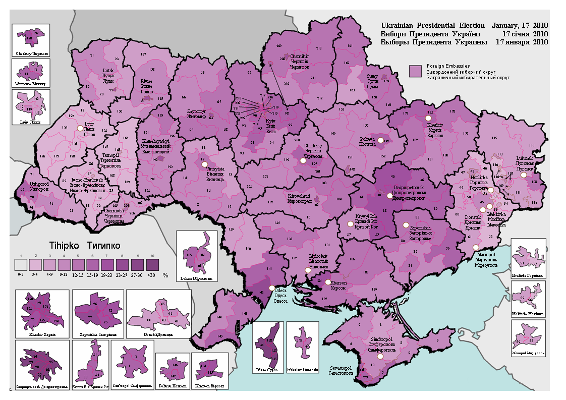 Result of Tihipko on Ukrainian presidental election 2010, 17 January